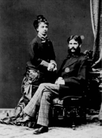 Karoly Balogh de Manko Bük Jr., nephew of the hungarian writer Imre Madach, with his wife Margit Berczy